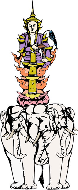 An artistic portrayal of Thagyamin, a nat. Adapted from The Thirty-seven Nats--A Phase of Spirit-Worship previaling in Burma, by Sir R.C. Temple